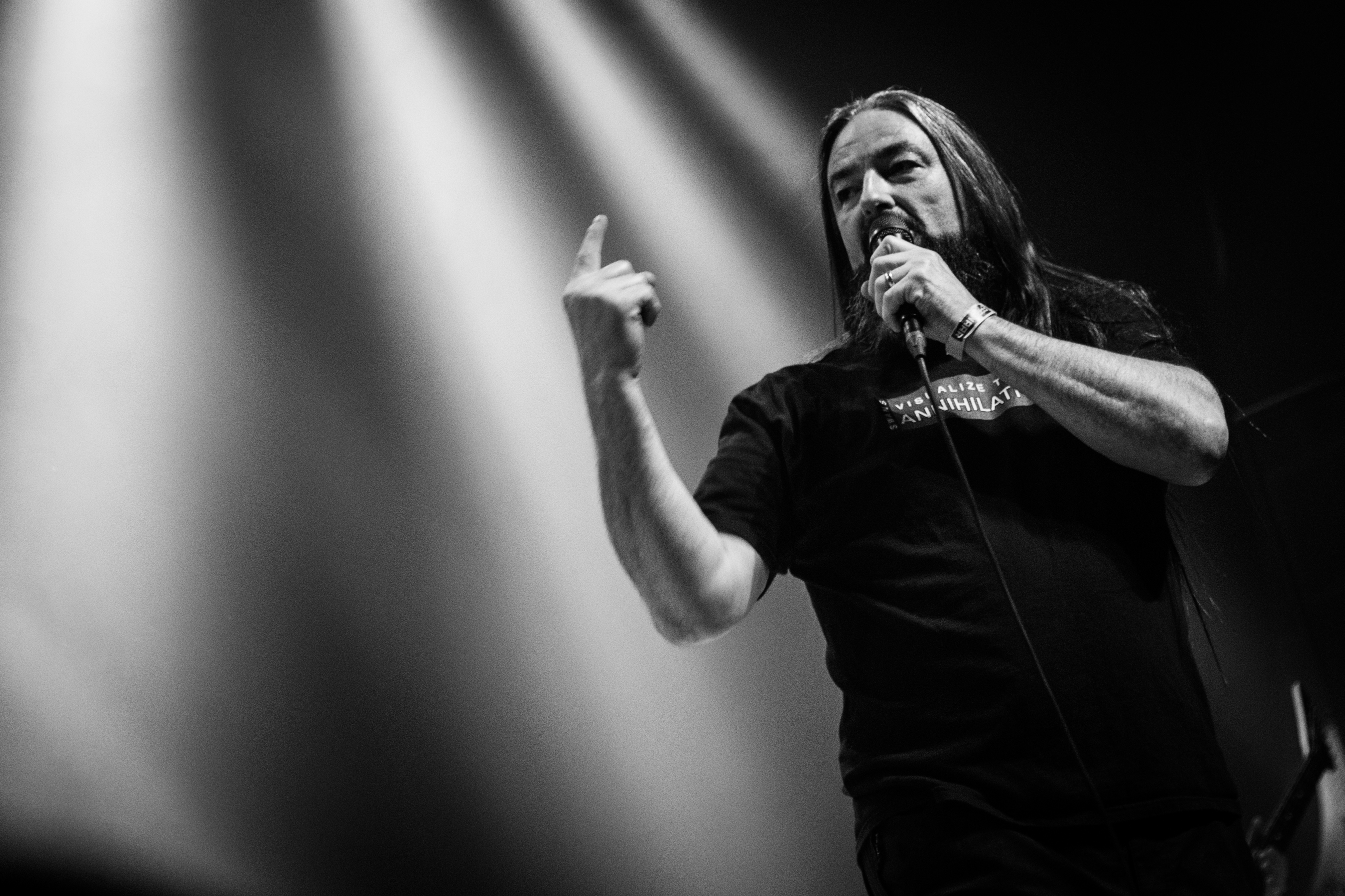 Onslaught performing live at Metal Meeting 2015, Eindhoven, Netherlands